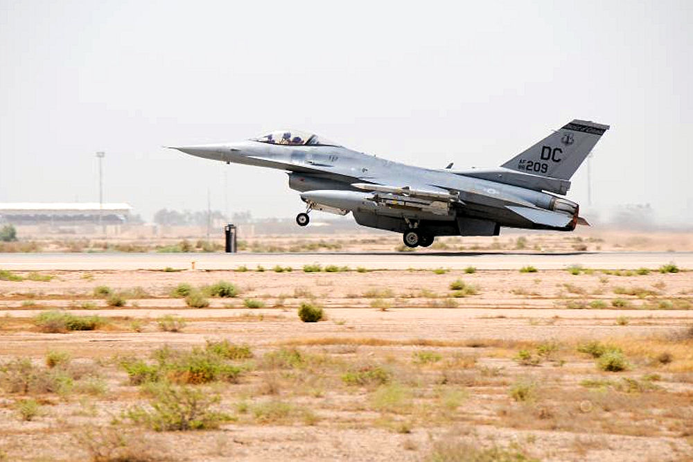 Lt.Col. Bradford 'Francis' Everman lifts off the runway at Balad AB in F-16C block 30 #86-0209 from the 121st FS on April 28th, 2010. Colonel Everman is also a Flight Commander at the 177th FW located in Egg Harbor Township. [USAF photo by MSgt. Andrew J. Moseley]